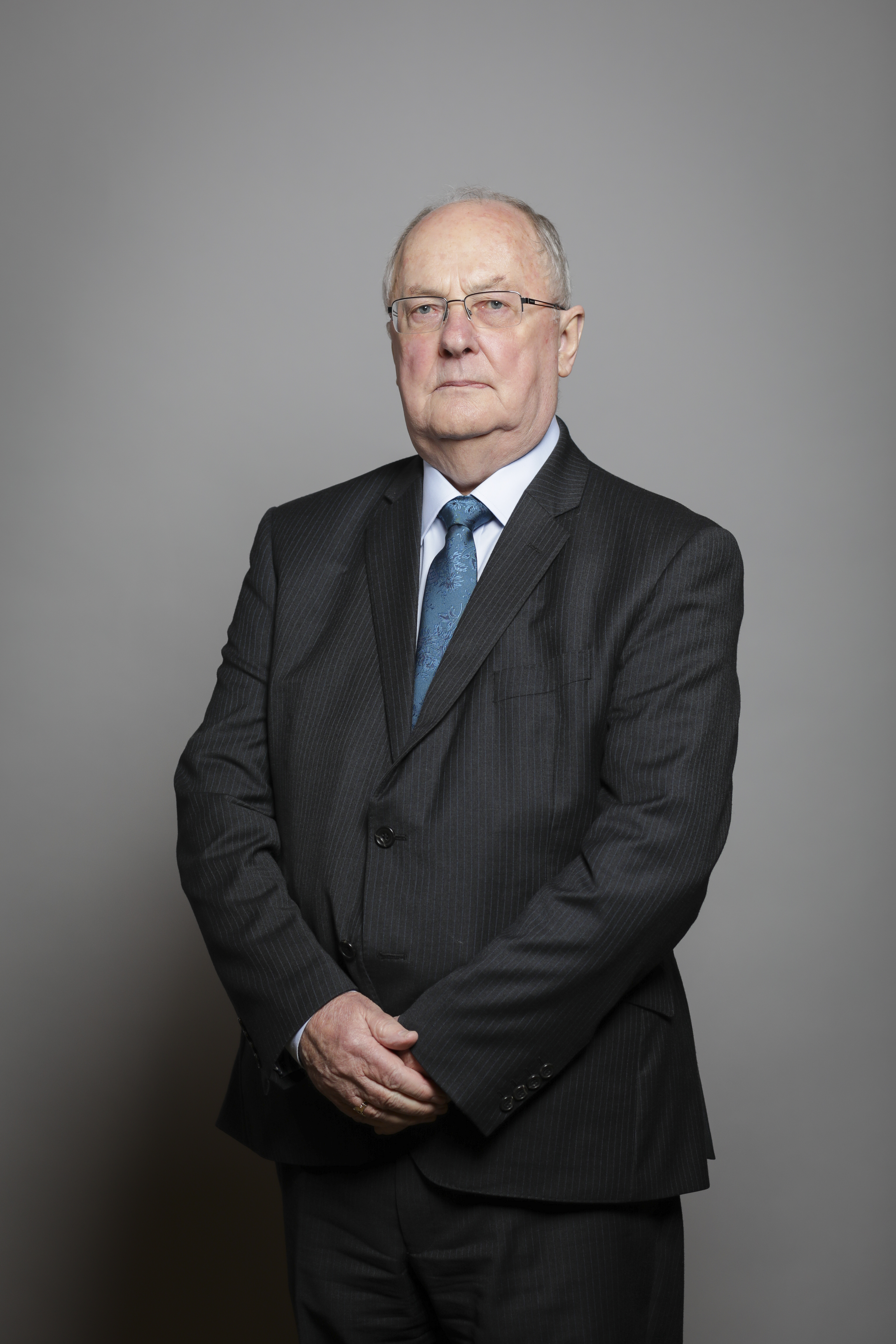 Official portrait of Lord MacKenzie of Culkein Full sized portrait of Lord MacKenzie of Culkein